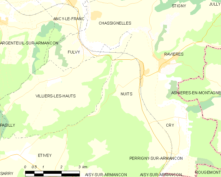 Map of French municipality Nuits